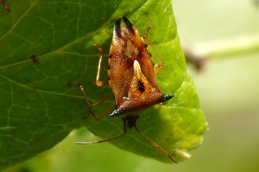 Elasmucha ferrugata